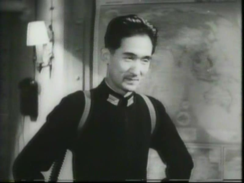 Hyo Kitazawa from "Hawai Mare oki kaisen (The War at Sea from Hawaii to Malay)".